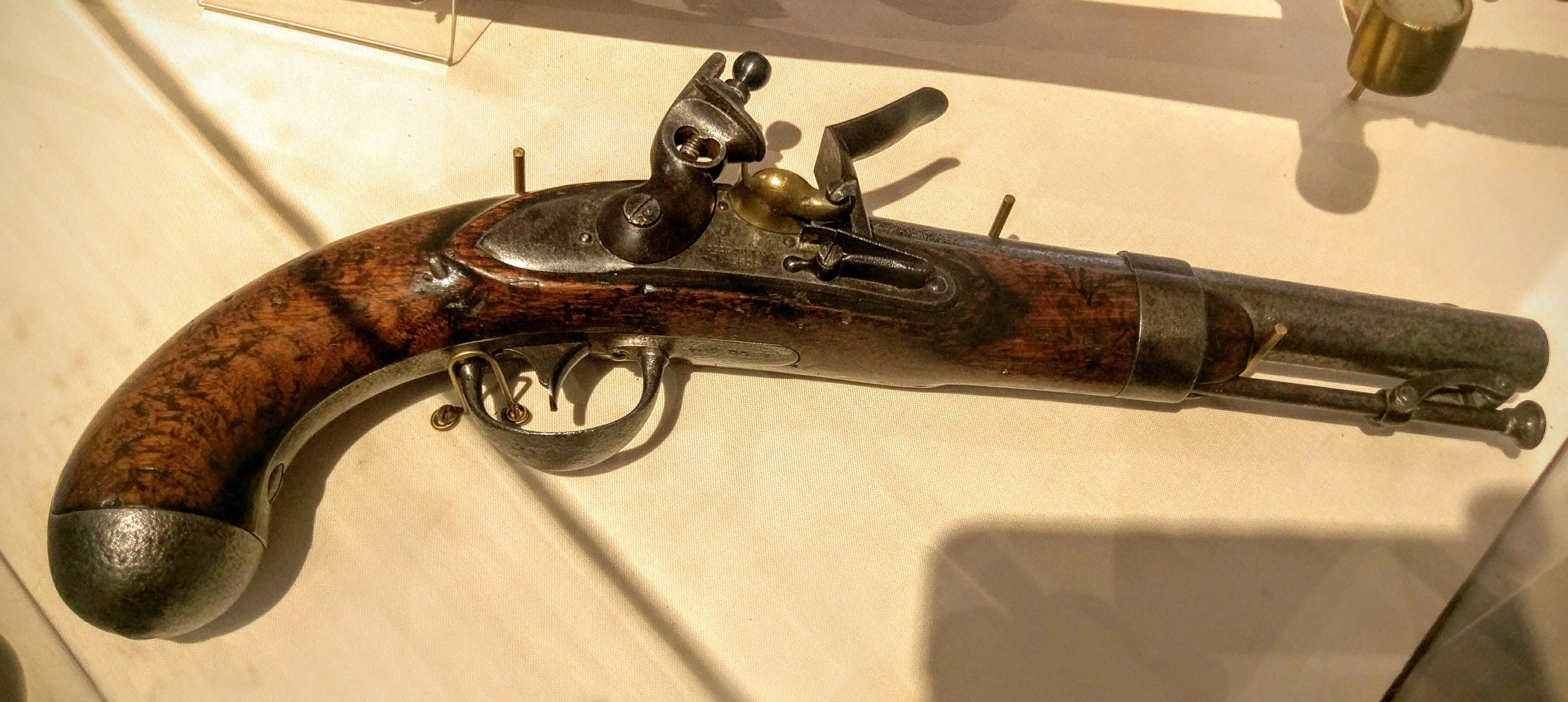 On display at Sutter's Fort in Sacramento, California. Photo by Jim Heaphy.